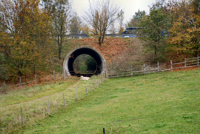 Subway under the A414 When the road was built it cut across the fields of Foxholes Farm and so the tunnel was constructed. It is a public footpath.